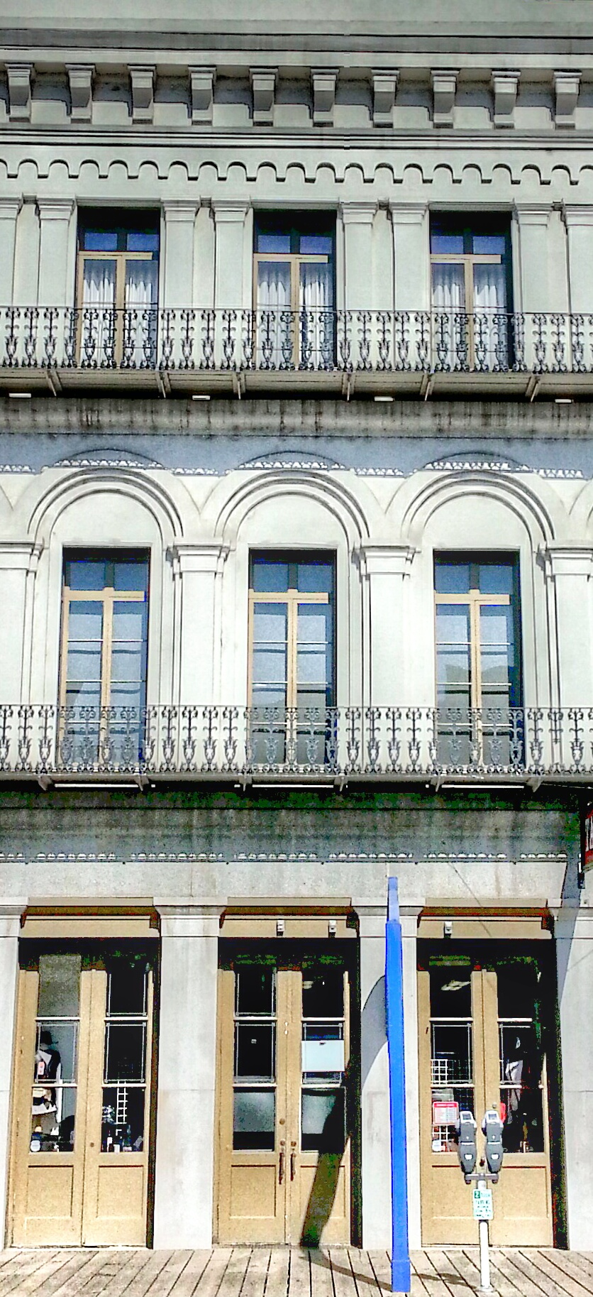 This building is to the right of the Orleans Hotel, on 2nd Street in Old Sacramento. The decorative wrought iron balconies, evenly spaced full height windows, and narrow ground-floor doors are characteristic of the Architecture of Andalusia in Southern Spain, as well as most of Spain's colonies in the Americas.